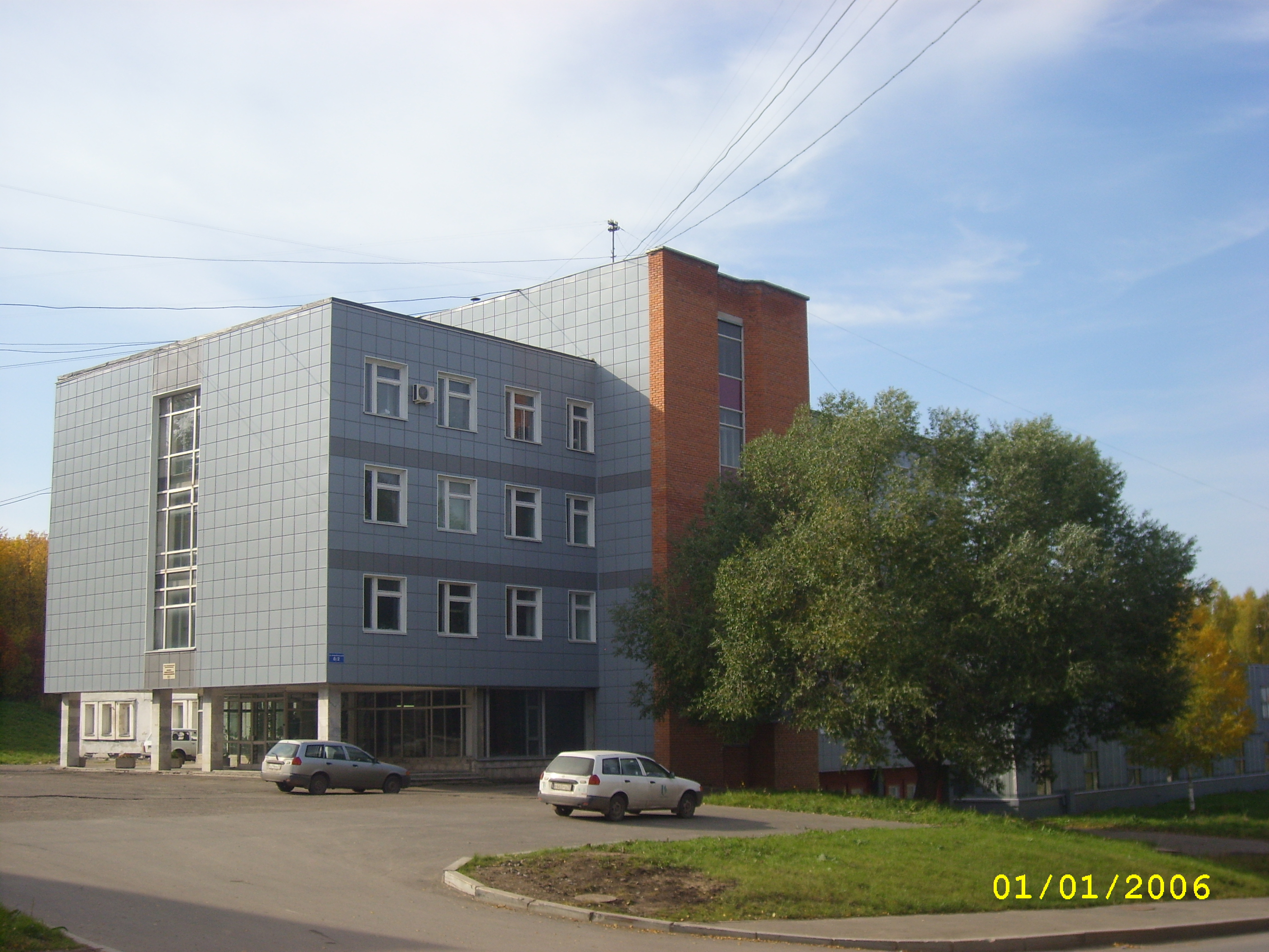 Republican Engineering Technical Center (RETC) buildings #4 and #5 at the Institute of Strength Physics and Materials Science of the Siberian Branch of the Russian Academy of Sciences in Tomsk, Russia